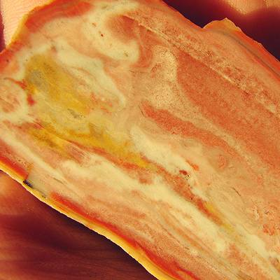 A slice of mozarkite, which is the State Stone for Missouri